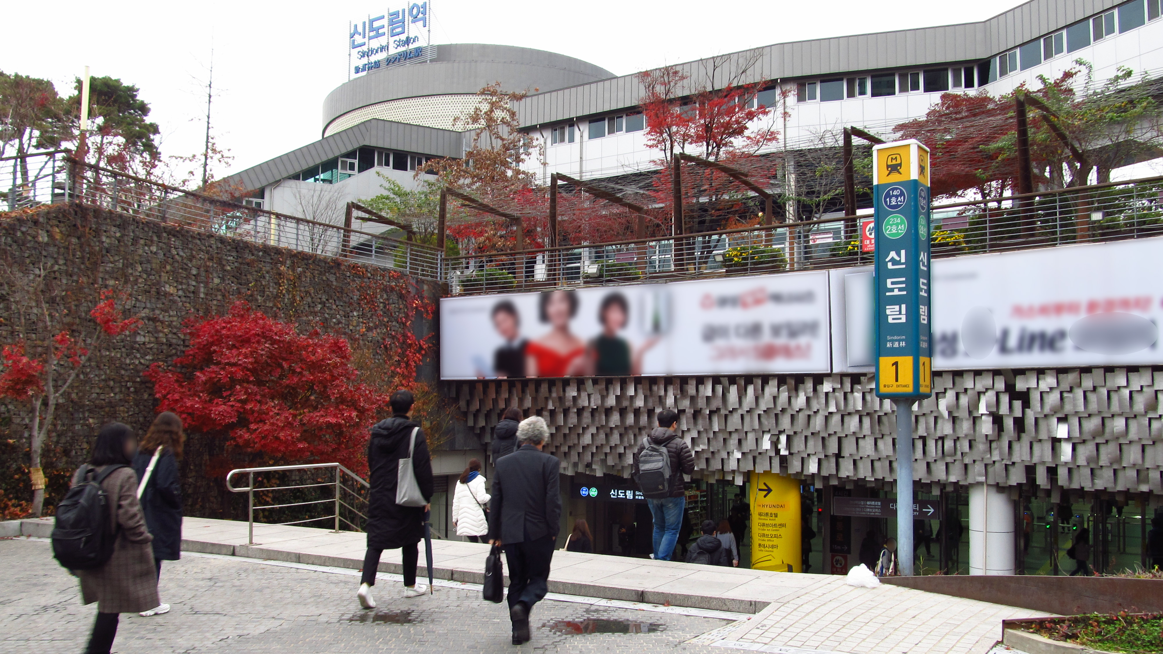 The no.1 entrance to Sindorim Station on the Seoul Metro Line 1 and Line 2 in Guro-gu, Seoul, Republic of Korea(South Korea)